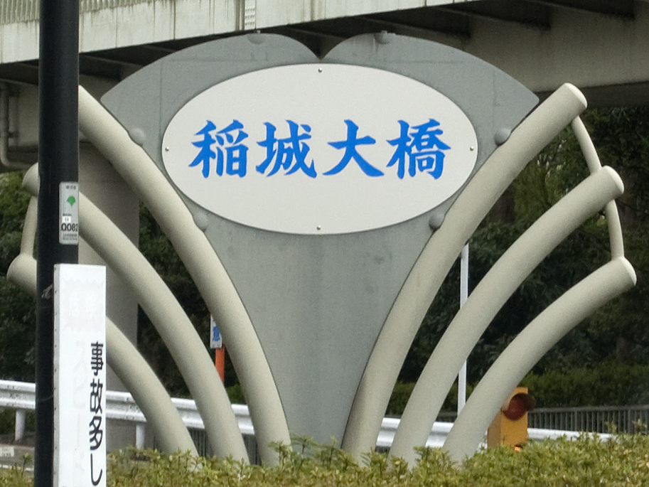 Entrance sign of Inagi Bridge Road in Fuchu, Tokyo, Japan.